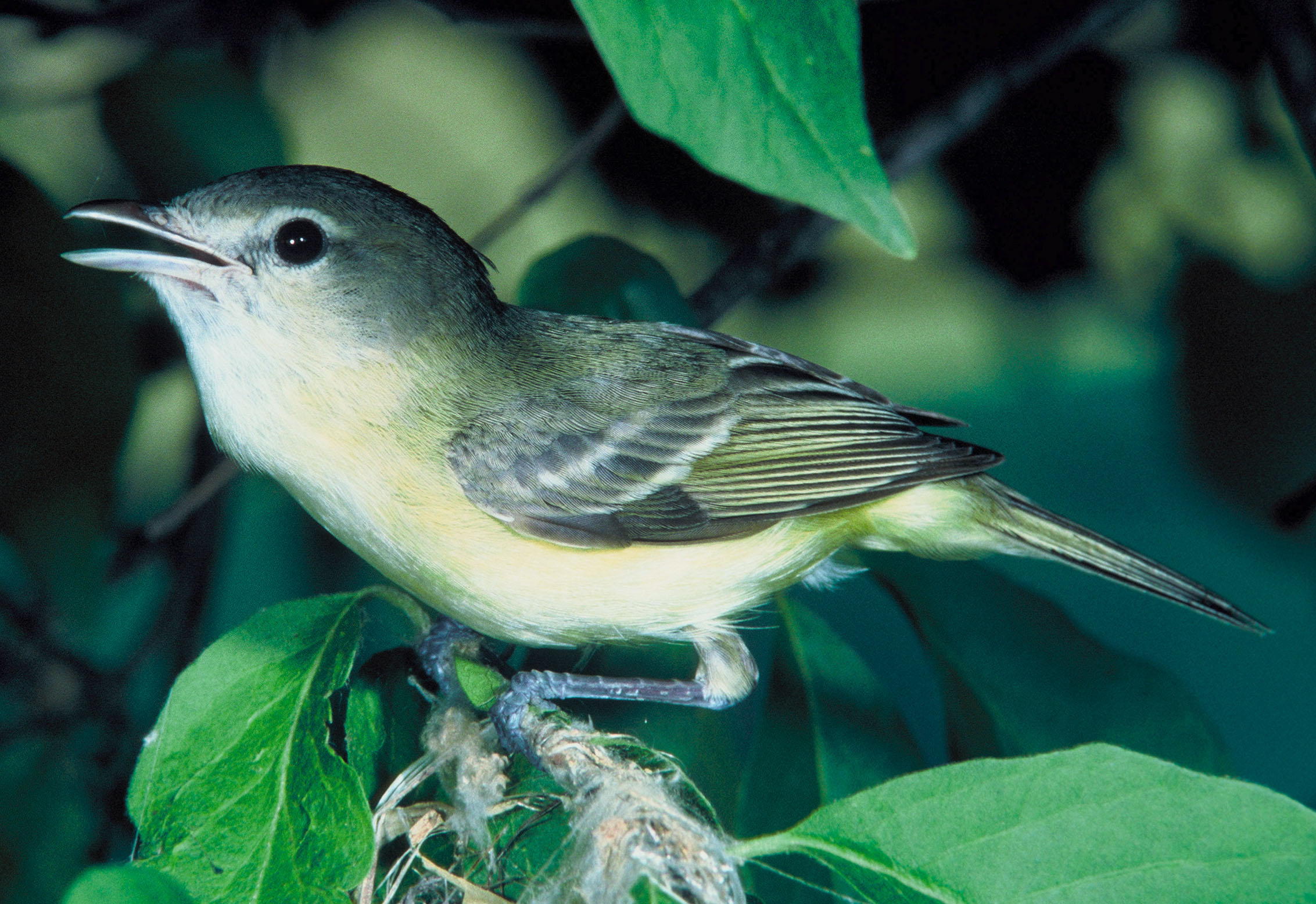 Bell's Vireo (Vireo bellii) public domain from USFWS